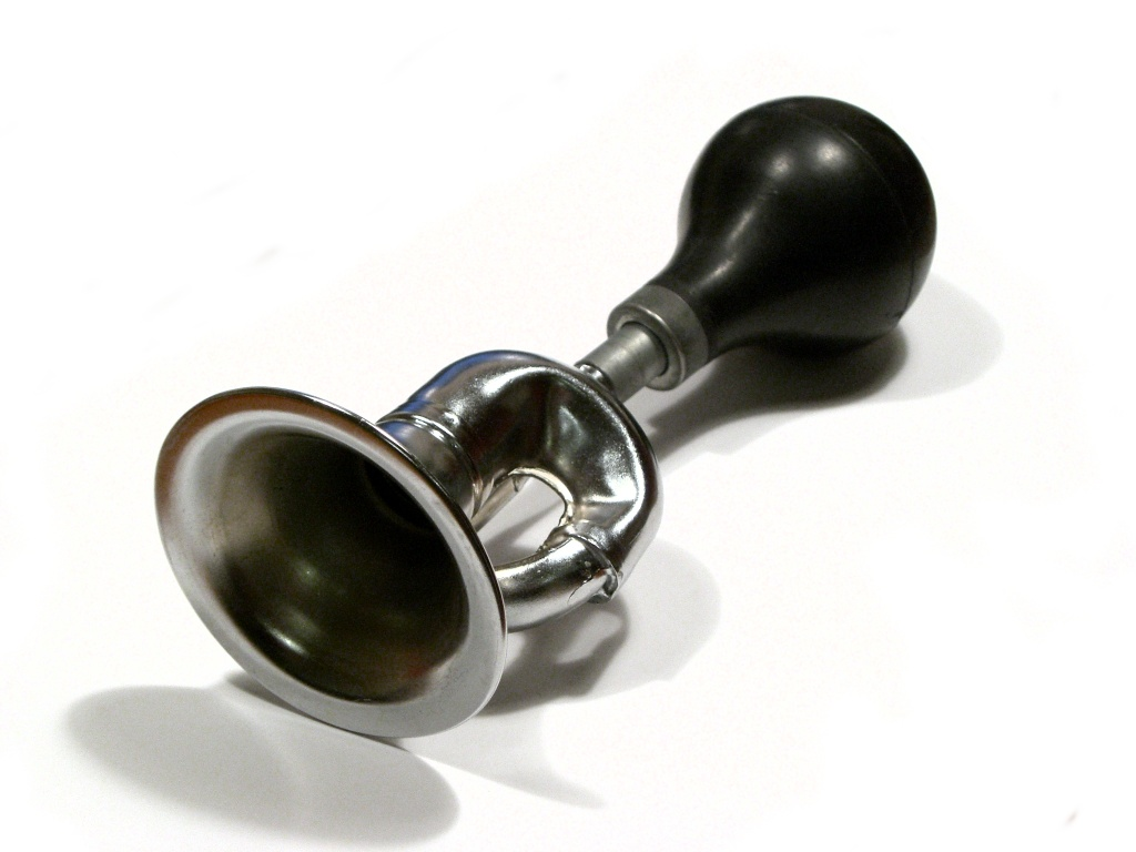 A bulb horn, used on bicycles as a warning device. Squeezing the black rubber bulb forces air through a reed at the throat of the metal horn, making it vibrate, creating sound waves. The metal horn couples the vibrations efficiently to the outside air, increasing the loudness of the sound.